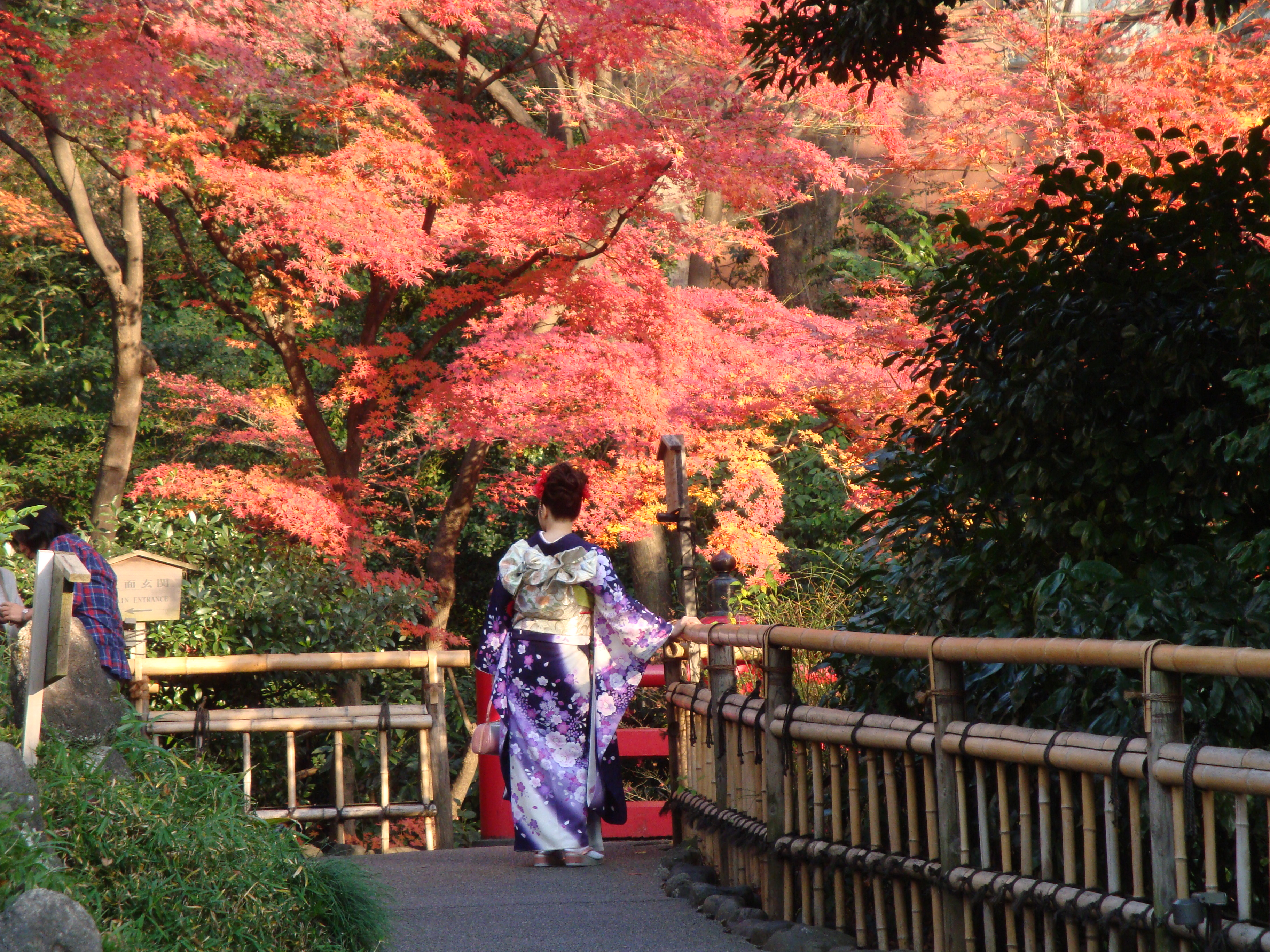 Chinzan-so Garden, Tokyo, Japan